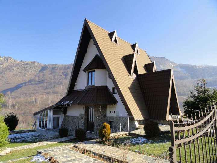 нижеполе